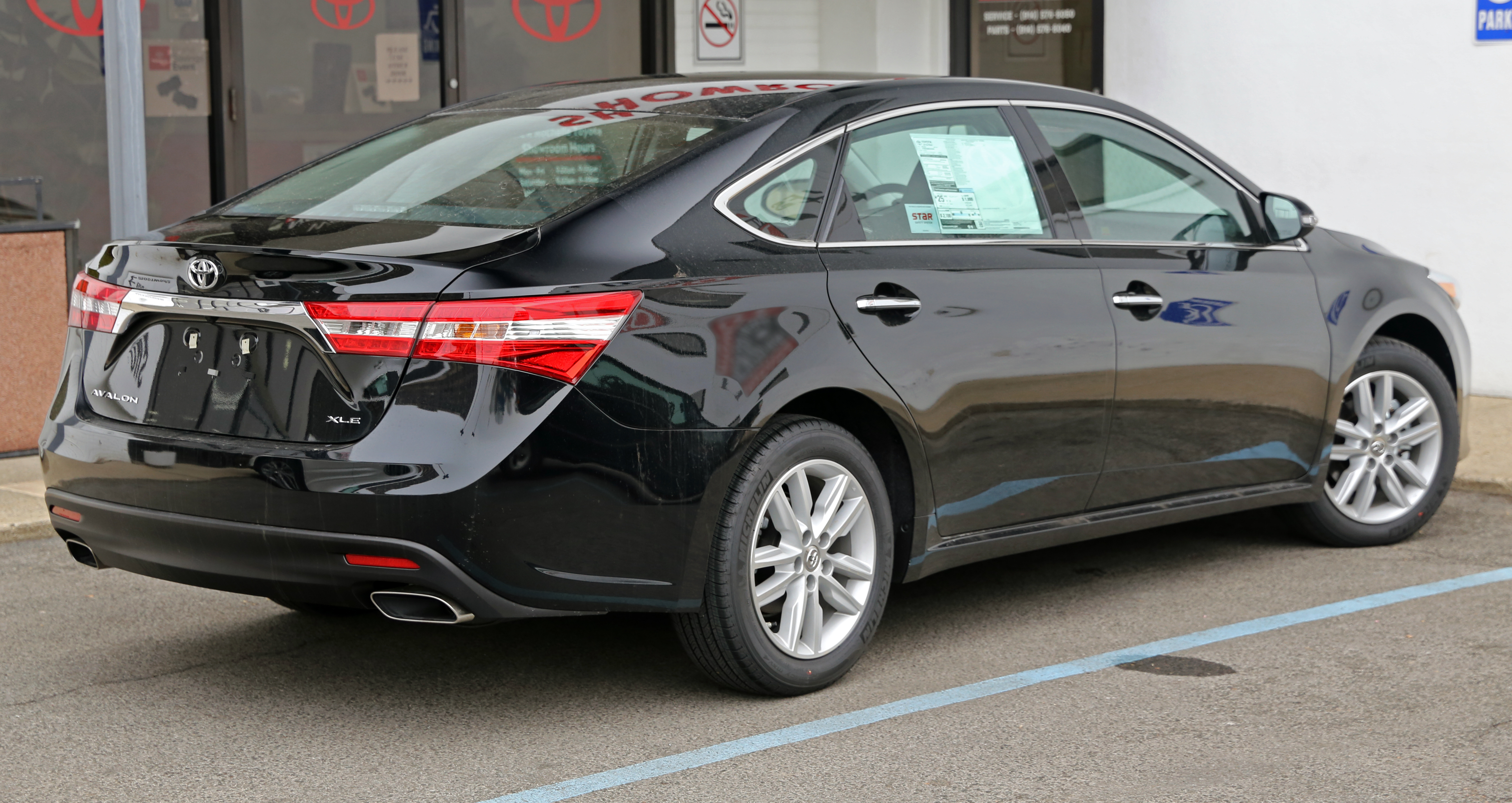 A 2014 Toyota Avalon XLE, rear view.